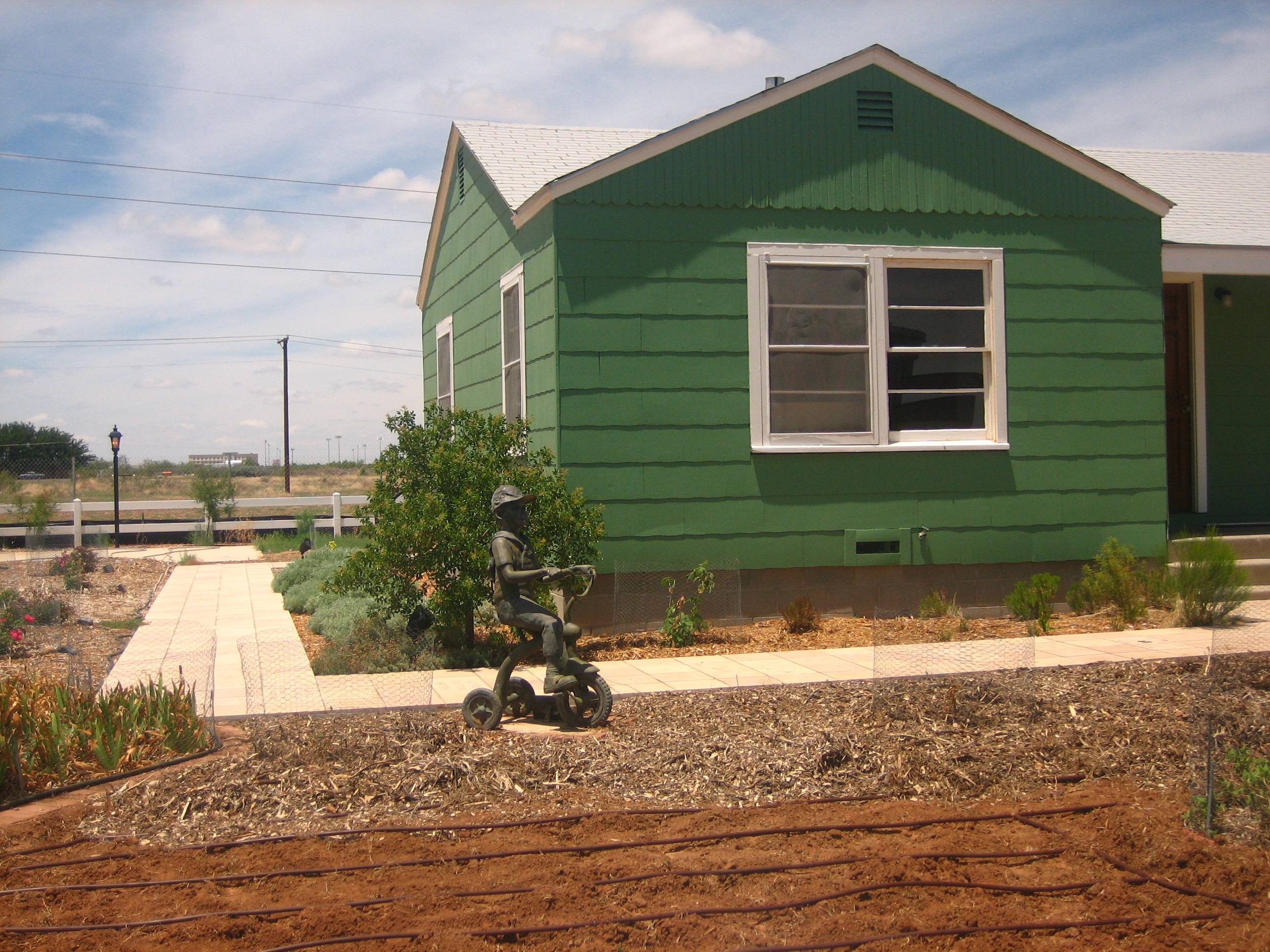 I took photo on July 10, 2008.Billy Hathorn (talk) 01:19, 7 July 2009 (UTC)